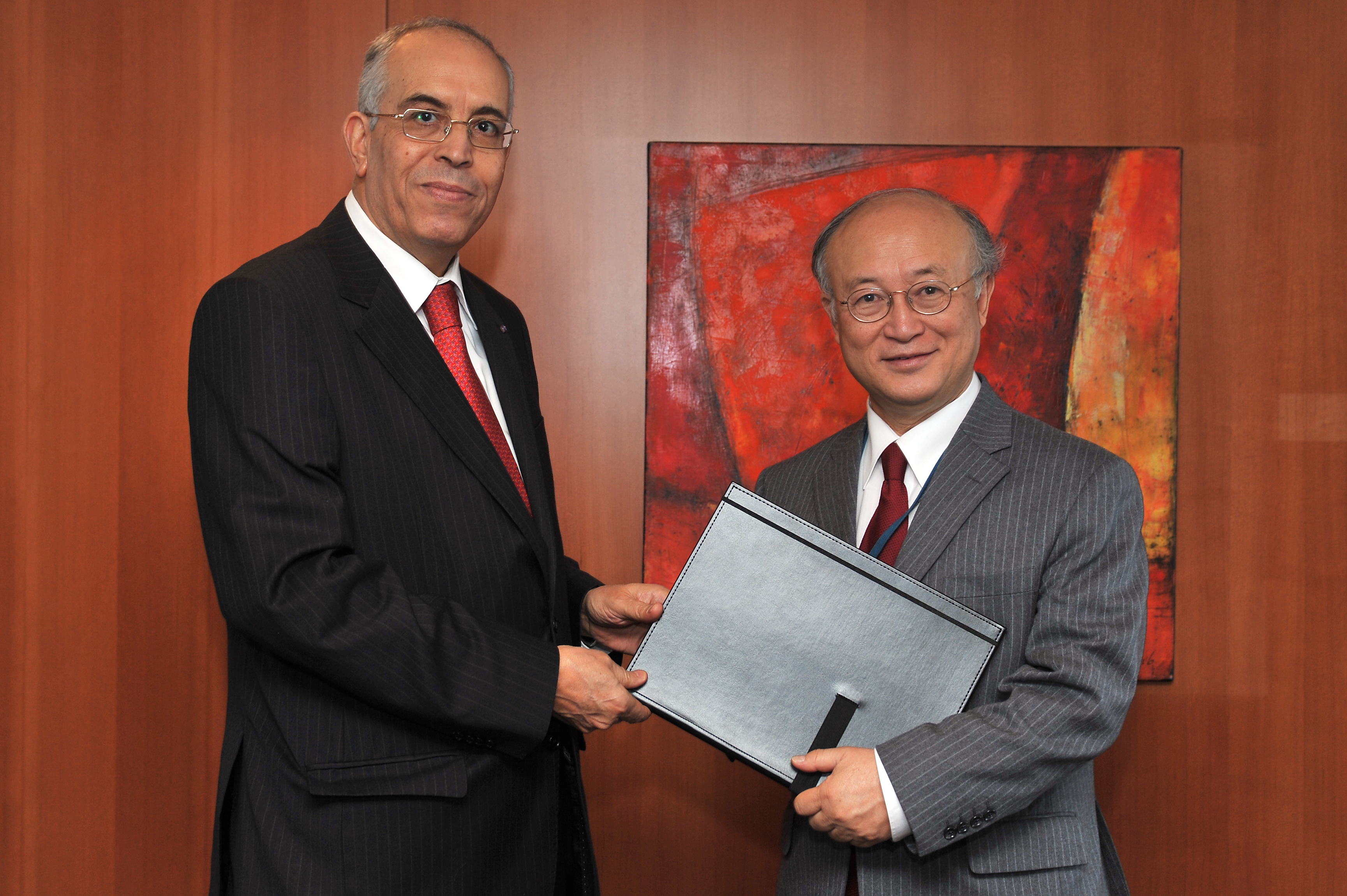 Presentation of credentials of the new Resident Representative of Tunisia, Ambassador Ali Chaouch, to IAEA Director General, Yukiya Amano. IAEA, Vienna, Austria, 30 March 2010 Copyright: IAEA Imagebank Photo Credit: Dean Calma/IAEA